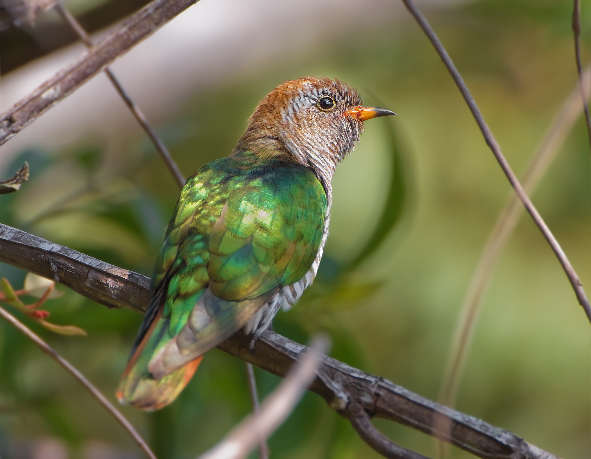 Asian Emerald Cuckoo (Chrysococcyx maculatus) female, Khao Yai National Park, Pak Chong, Thailand